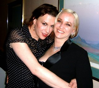 Betty Crow and Helen Boyd at "The Glitz" (Phoenix, AZ) in February, 2005. ≥Athena2006 20:12, 7 June 2007 (UTC) I am the source for this image. I photographed the couple in February, 2005. Athena2006 (talk) 15:43, 28 January 2011 (UTC)